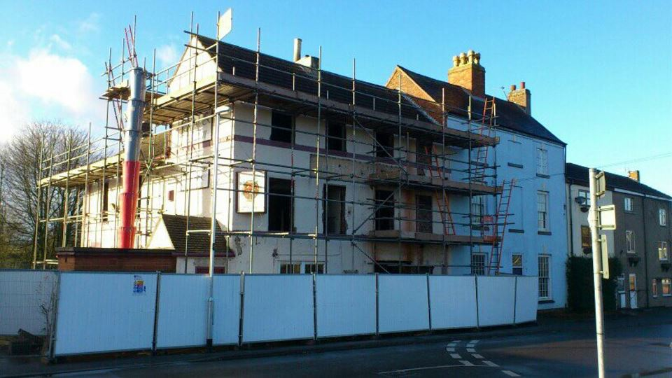 The Rose and Crown at Thringstone, seen during the process of demolition, December 9th 2012